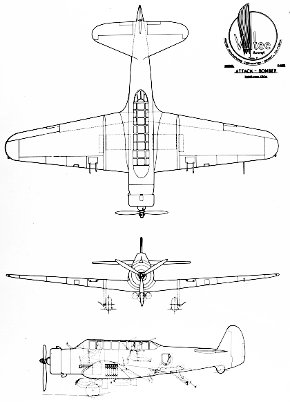 Catalog #: 00072753 Manufacturer: Vultee Designation: V-11GB